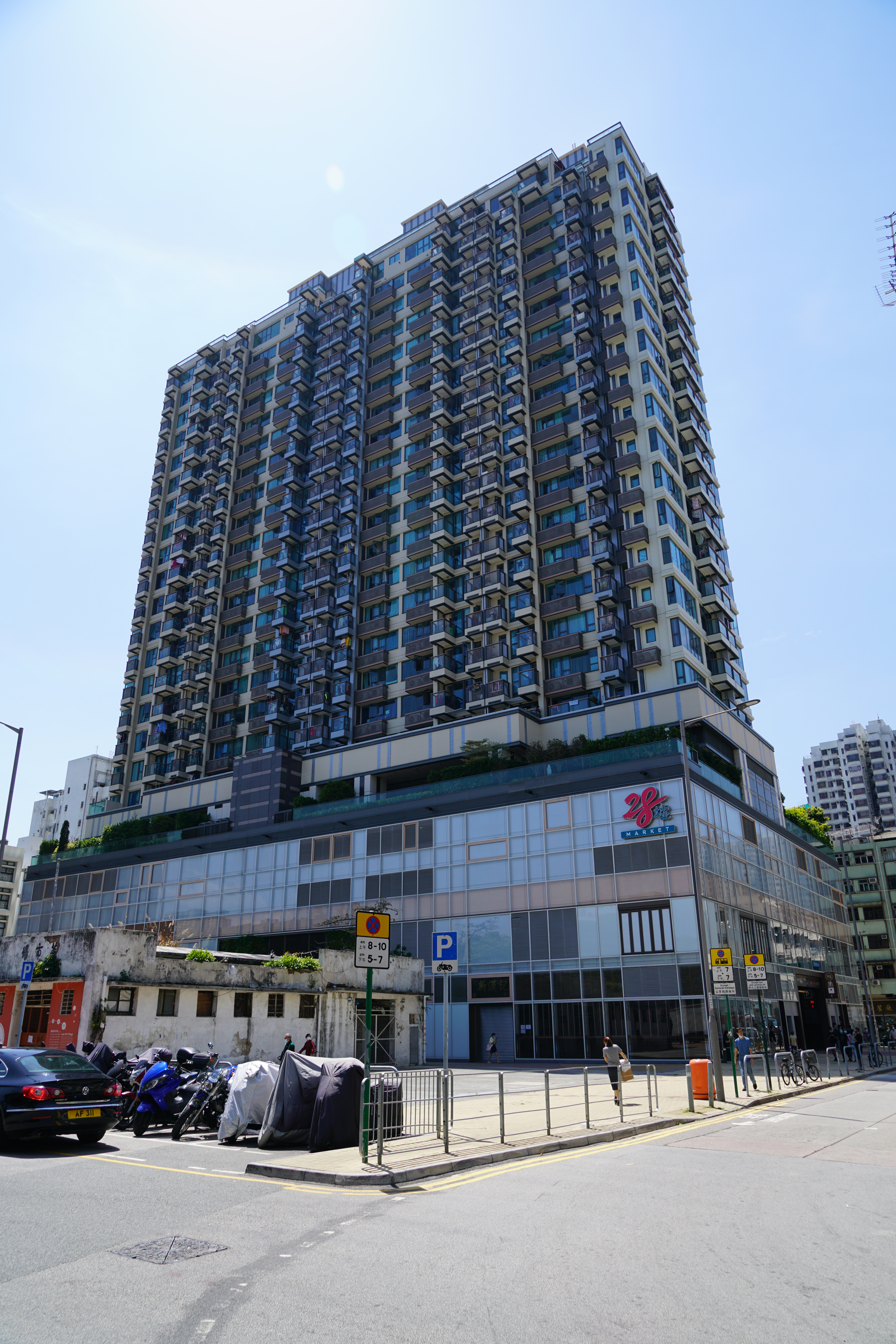 Commune Modern, Hong Kong.